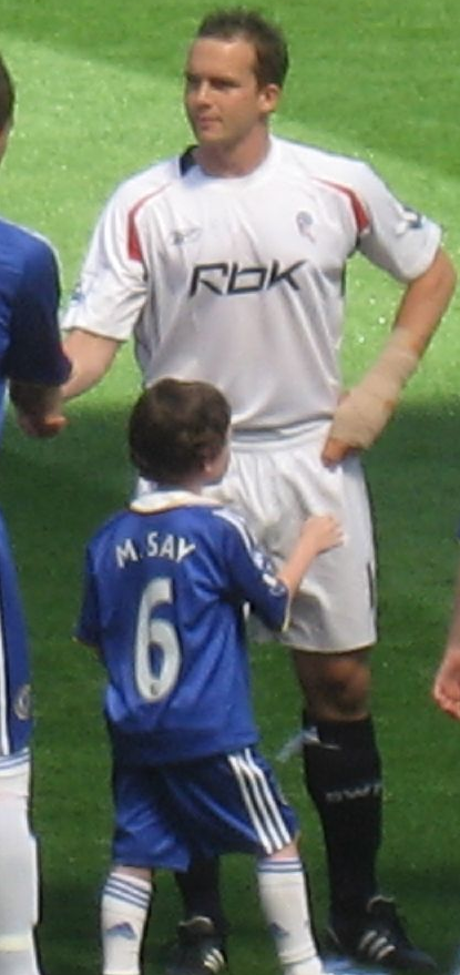 Kevin Davies. Image cropped from original at flickr.